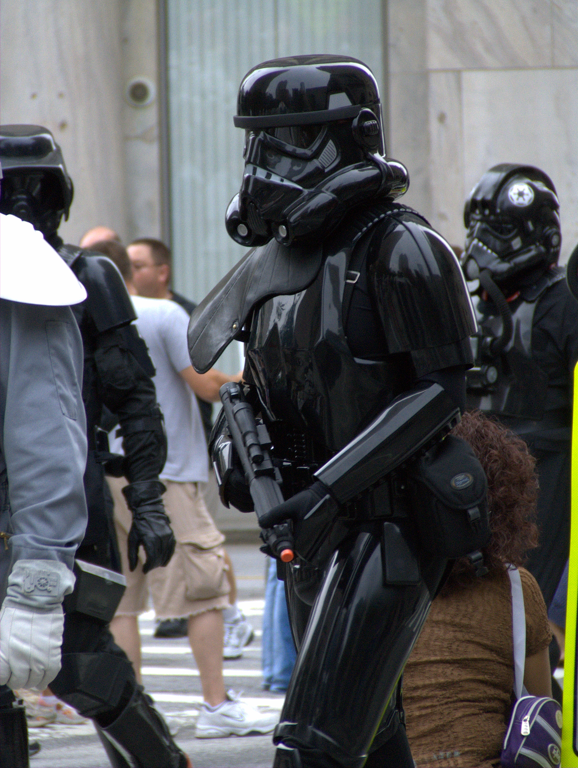 Black stormtrooper (the parade at DragonCon 2006).